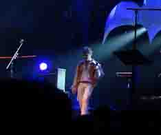 Benoît David with Yes on stage at Lifestyles Pavilion in Columbus, Ohio